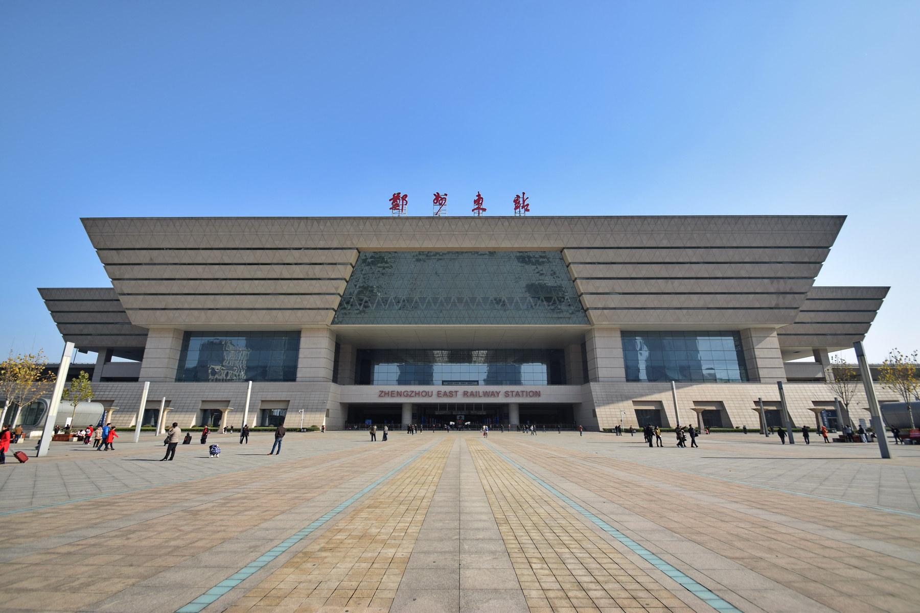 Zhengzhou East (Dong) Railway Station